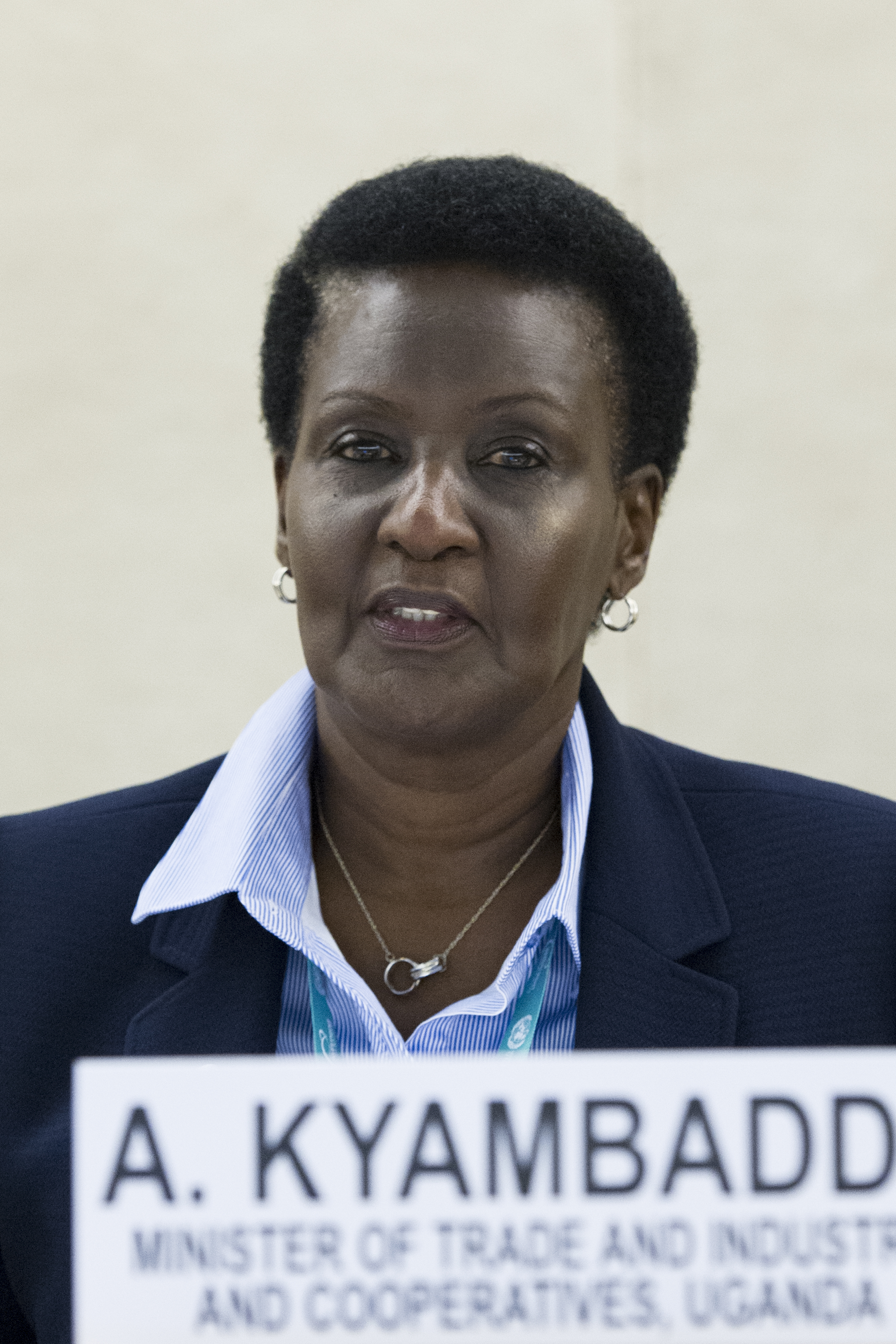 H.E. Ms. Amelia Kyambadde, Minister of Trade, Industry, and Co-Operatives, Uganda attends the « Ministerial Roundtable: LDCs and Business Executive » during the World Investment Forum 2018, Palais des Nations. UNCTAD Photo by Violaine Martin